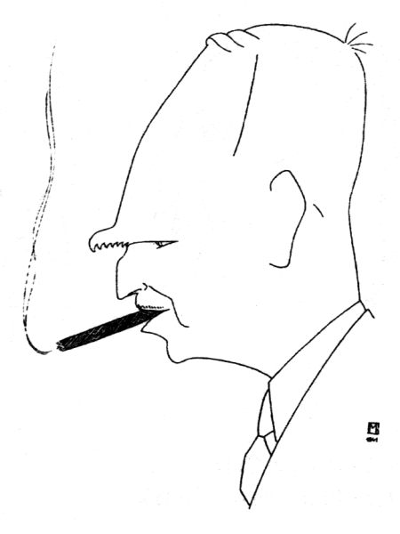 Otto Hahn (1879-1968), Nobel Laureate in Chemistry (1944)Drawing by Gheorghe Manu (1903-1961), Romanian physicist